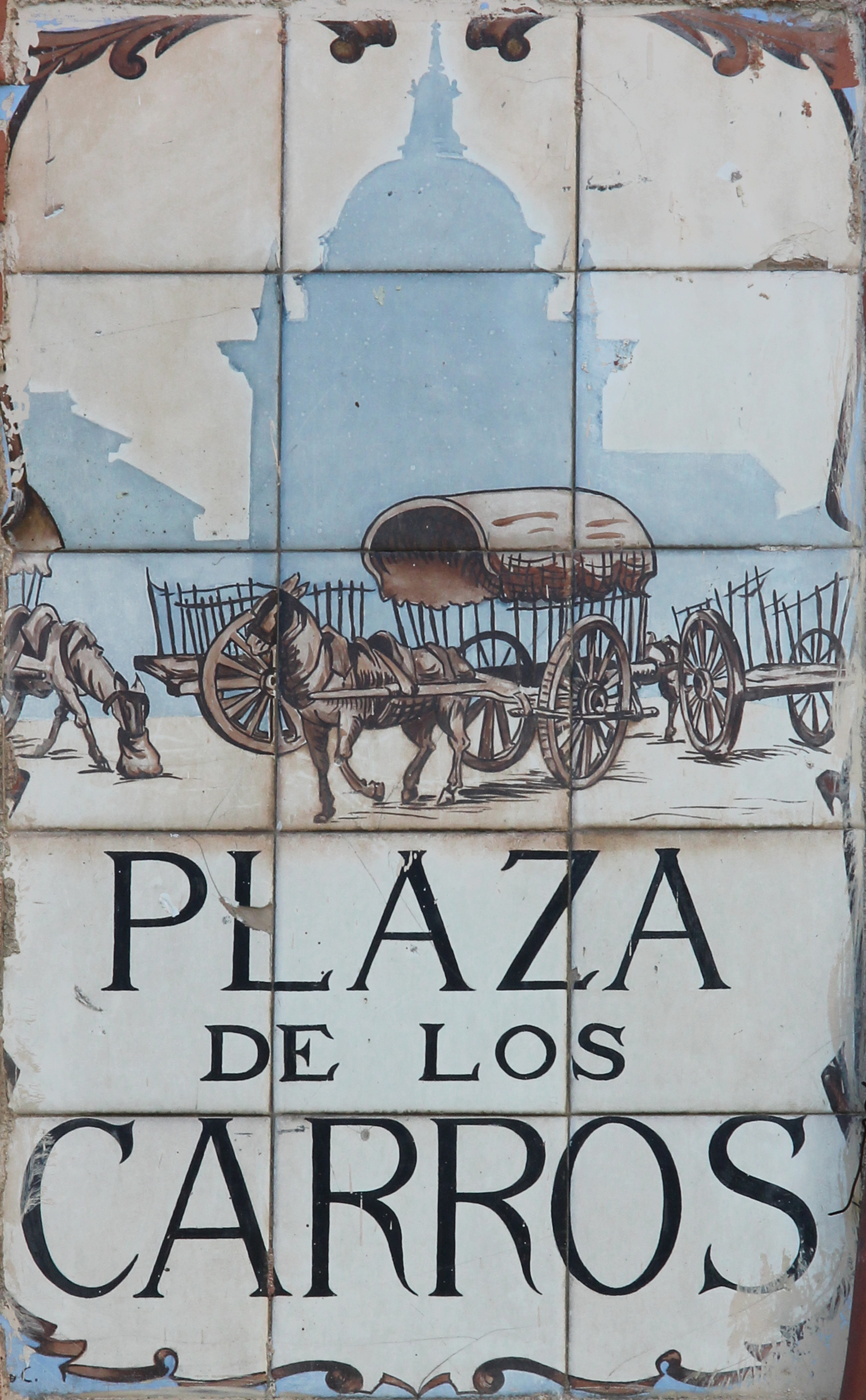 Sign of Plaza de los Carros (square) in Madrid (Spain).